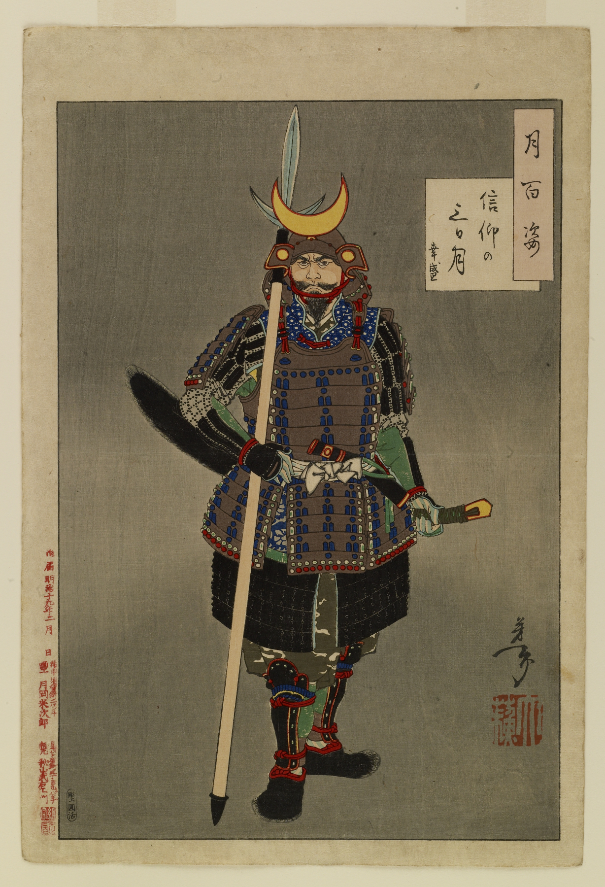 Yukimori (1543-76), a samurai known for his great strength and loyalty, served the Amako warlord during a time in Japanese history referred to as "Sengoku," or "the country at war." He wears a suit of armor called "tosei gusoku" ("modern equipment") that was designed in the 16th century to be worn by a foot soldier. Like many samurai, Yukimori never went into battle without his "rabbit's foot"-the crescent moon ornament he wore on his helmet as a token of good luck.